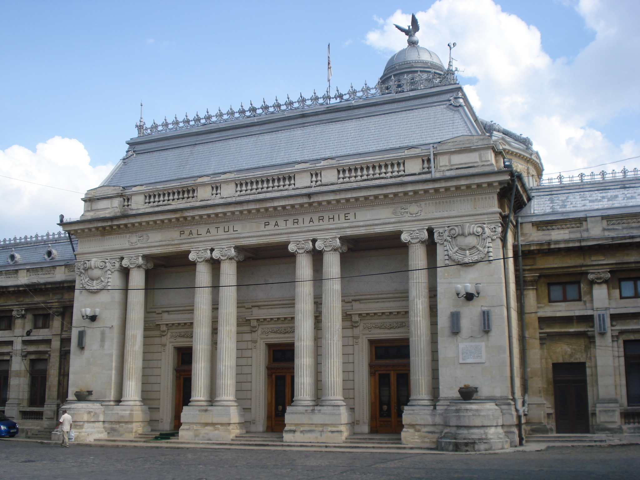 Palace of the Patriarchate, Bucharest